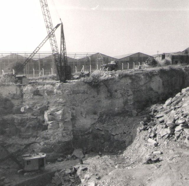 Brackenhill Quarries Quarrying is believed to have begun here in 1629 when Charles I granted quarrying rights to tenants to take stone for use within the Manor. The hard course-grained sandstone was not only good building material but could be used for grindstones and scythe stones and by the 1800s it was exported worldwide.